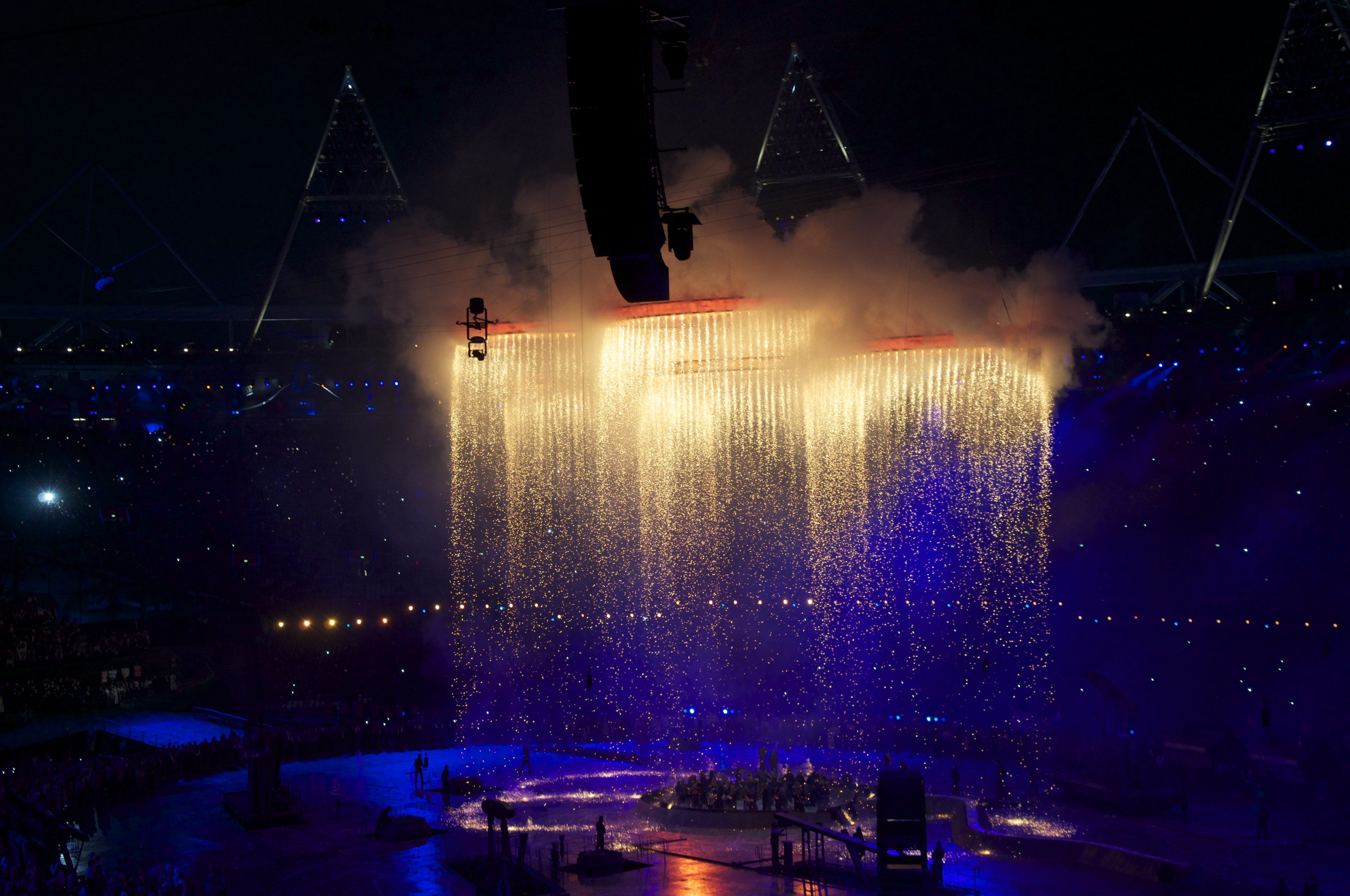 London 2012 Olympics Opening Ceremony